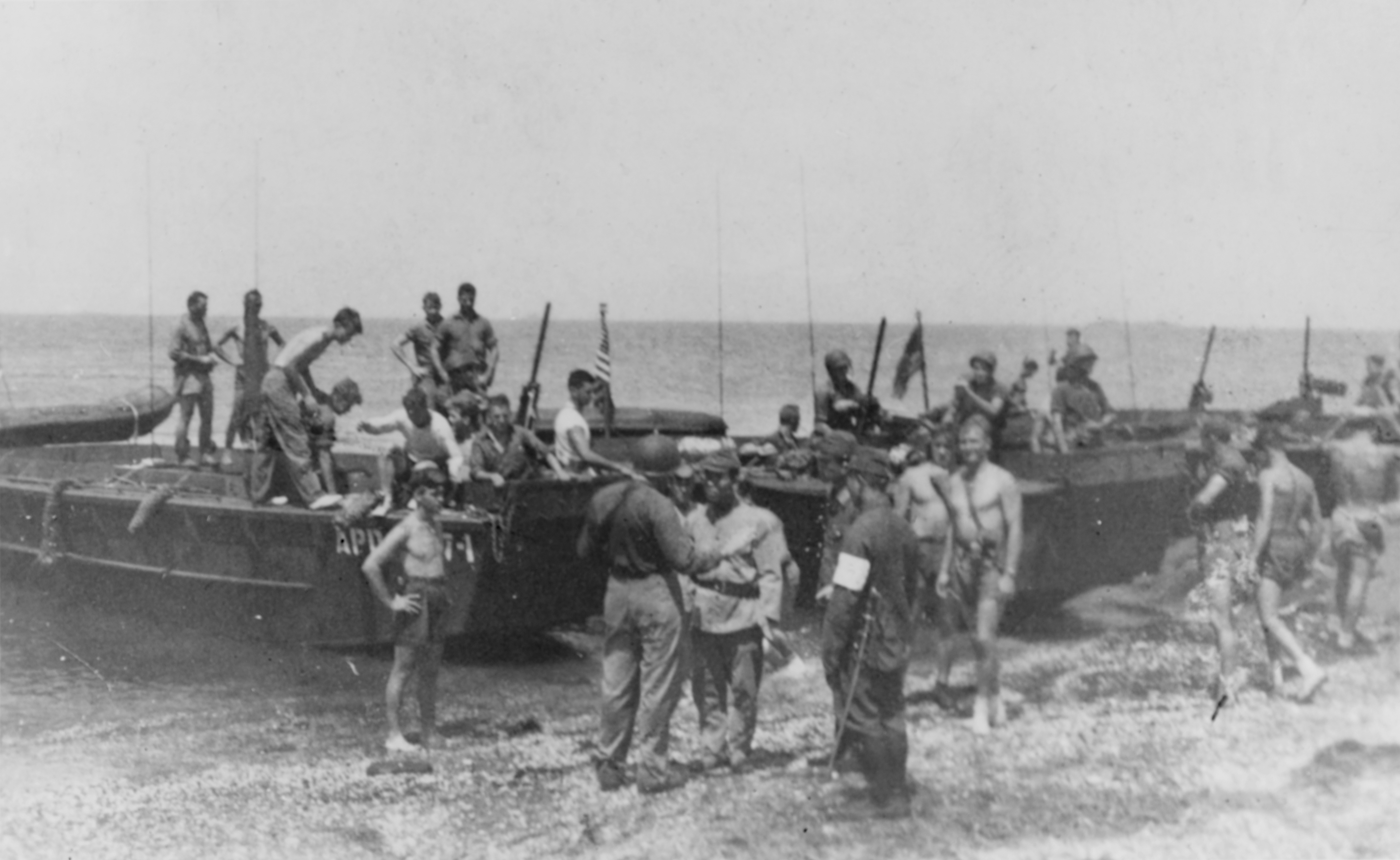 Surrender of Japan, 1945: Lieutenant Commander Edward Porter Clayton, USN, (center, back to camera) Commanding Officer of Underwater Demolition Team 21, receiving the first sword surrendered to an American force in the Japanese Home islands. The surrender was made by a Japanese Army Coast Artillery Major (standing opposite LCdr. Clayton) at Futtsu-misaki, across Tokyo Bay from Yokosuka Navy Base on 28 August 1945. Members of UDT-21 had landed from USS Begor (APD-127), whose boats are beached in this view. Identifications of many of the other UDT-21 members present were provided. Those to the left of LCdr. Clayton include (from left to right, in first boat except as noted): Gunner's Mate 2nd Class William P. Griffis; E.W. Pangburn; J.E. Paul; R. Rice; Seaman 1st Class A.L. Vadenburg (standing on beach in swim gear); Gunner's Mate 1st Class Robert Lee Wicall (kneeling, in white shirt); Gunner's Mate 2st Class Robert A. Winters (standing, behind Wicall); Seaman 1st Class Frank P. Goodwill (standing, beside Winters); Radio Technician 2nd Class L. Wurzel (kneeling, beside Wicall); Motor Machinist's Mate 2nd Class O'Brien; Lieutenant (Junior Grade) Philip Masters (in white shirt, at bow of boat); Others identified, to right of LCdr. Clayton, include: Motor Machinist's Mate 1st Class Myron Earl Townsend (in second boat, only head & shoulders visible, just to right of Japanese Major); Coxwain Shirley Cox and Gunner's Mate 1st Class E.G. Chesney (left to right, in swim gear, standing on beach just to right of group of Japanese in center).